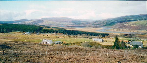 The crofting settlement of Achnahanat looks out over the tidal waters of the Kyle of Sutherland, Scotland